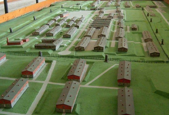 concentration camp Gross-Rosen